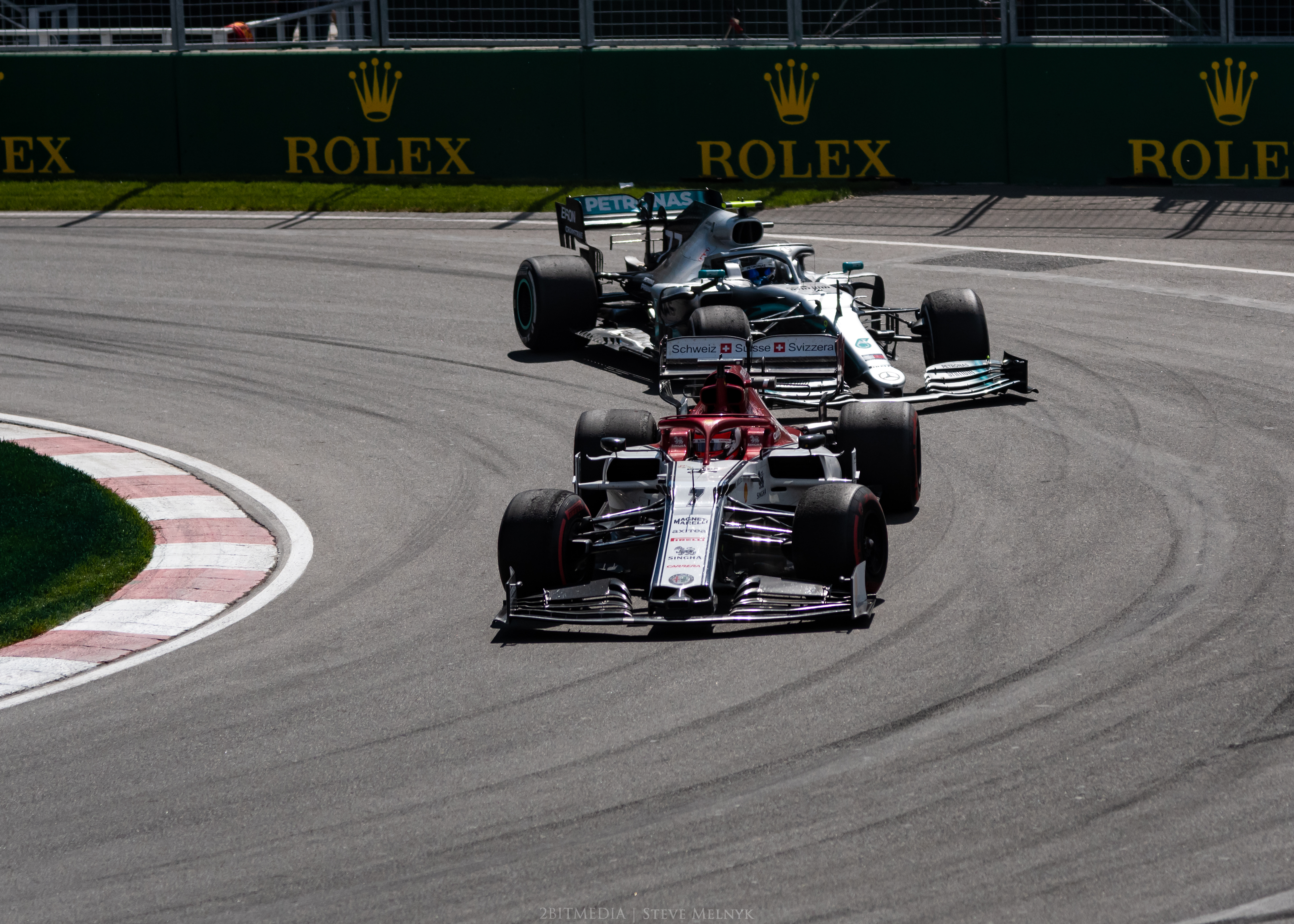 2019 Canadian Grand Prix Räikkönen Bottas.